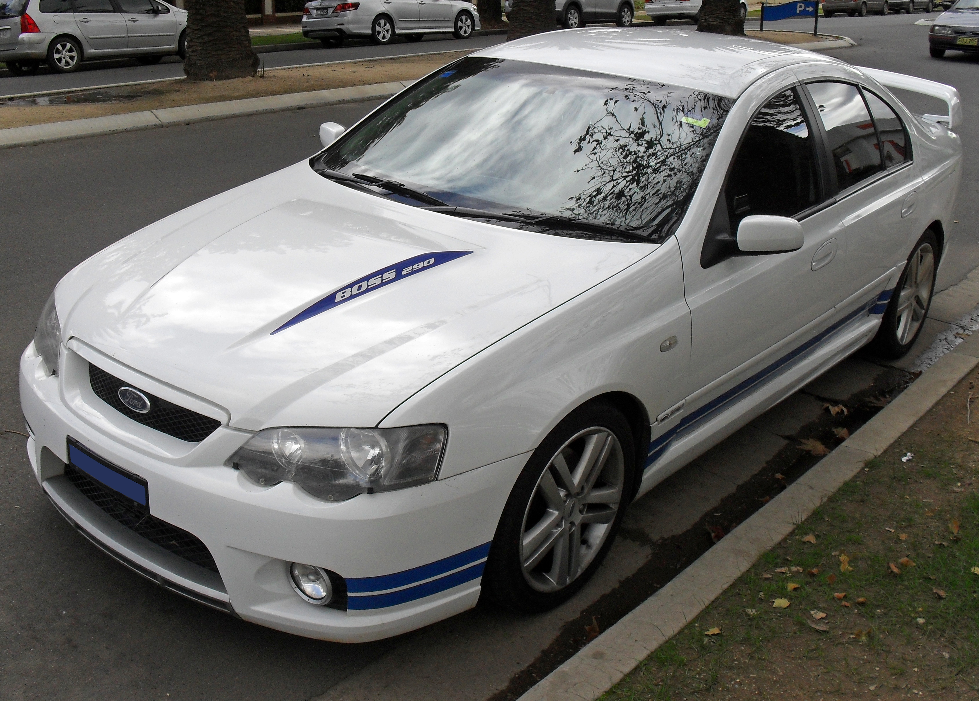 2003 - 2004 FPV GT Boss 290 (BA series)